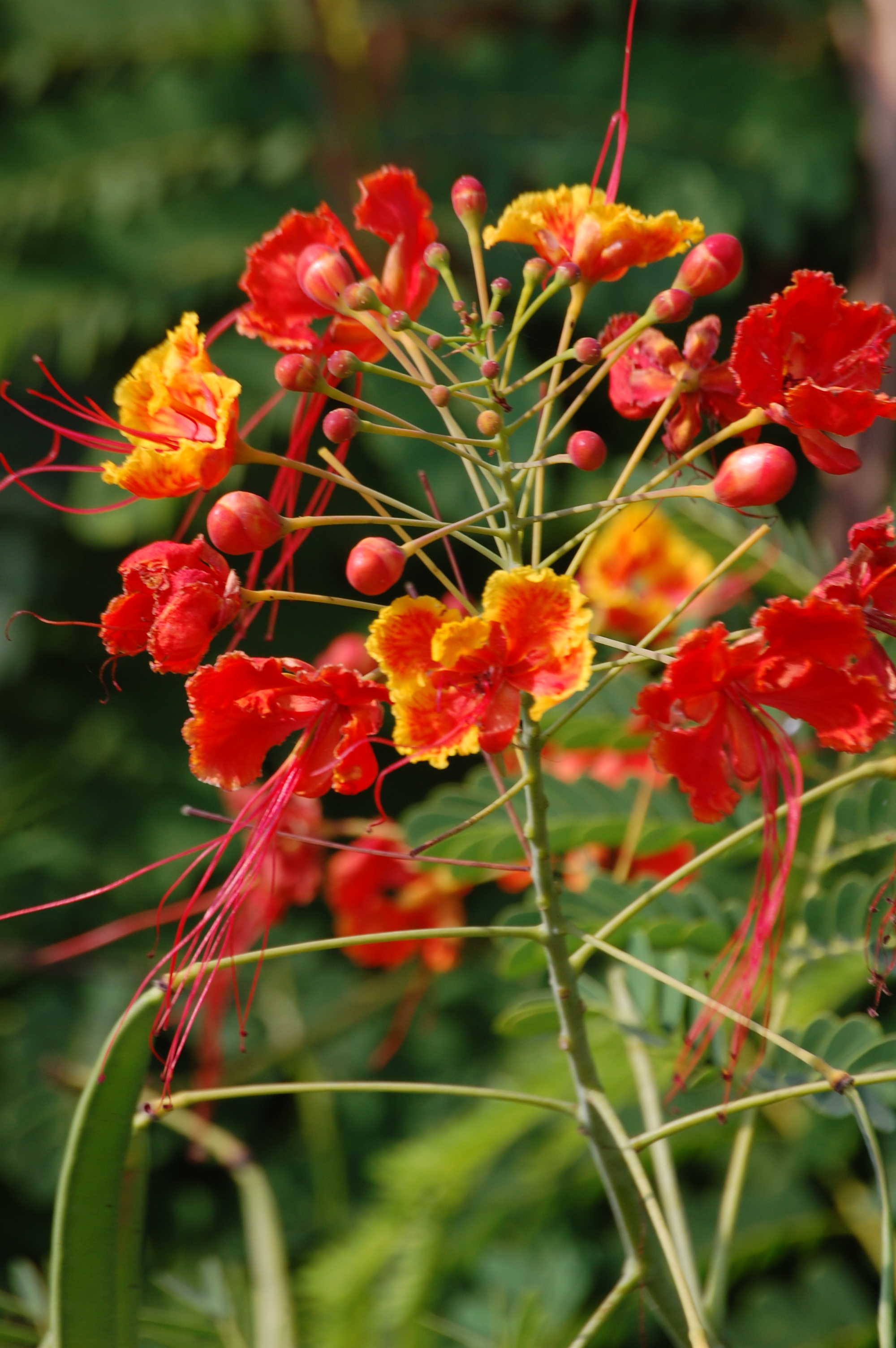 Caesalpinia pulcherrima